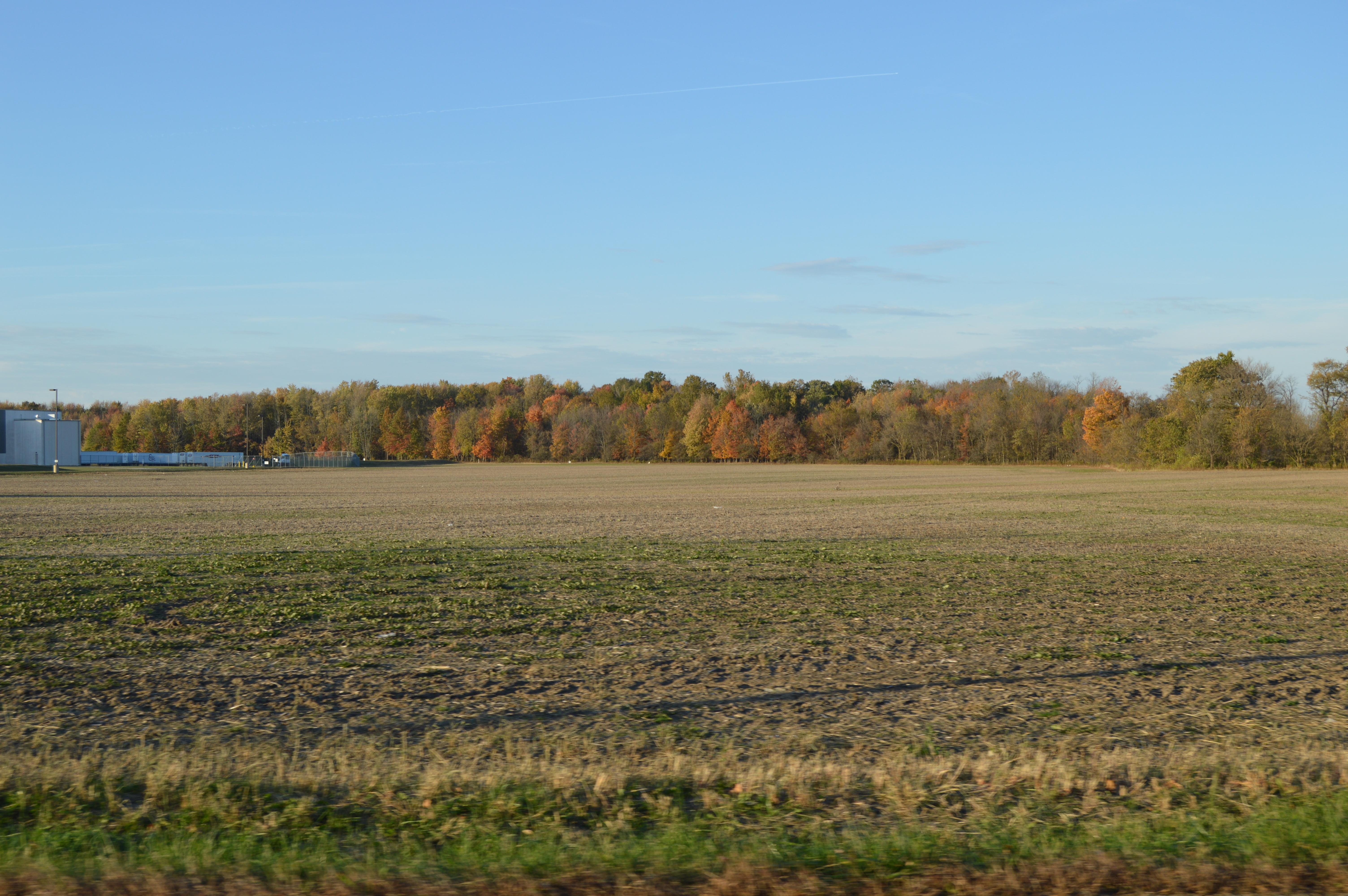 Fields southeast of Sharon in western Jackson Township, Richland County, Ohio, United States, seen looking north from Taylortown Road just east of the State Route 39 intersection.